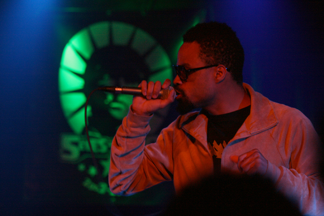 Bilal performing in Gellert, Budapest